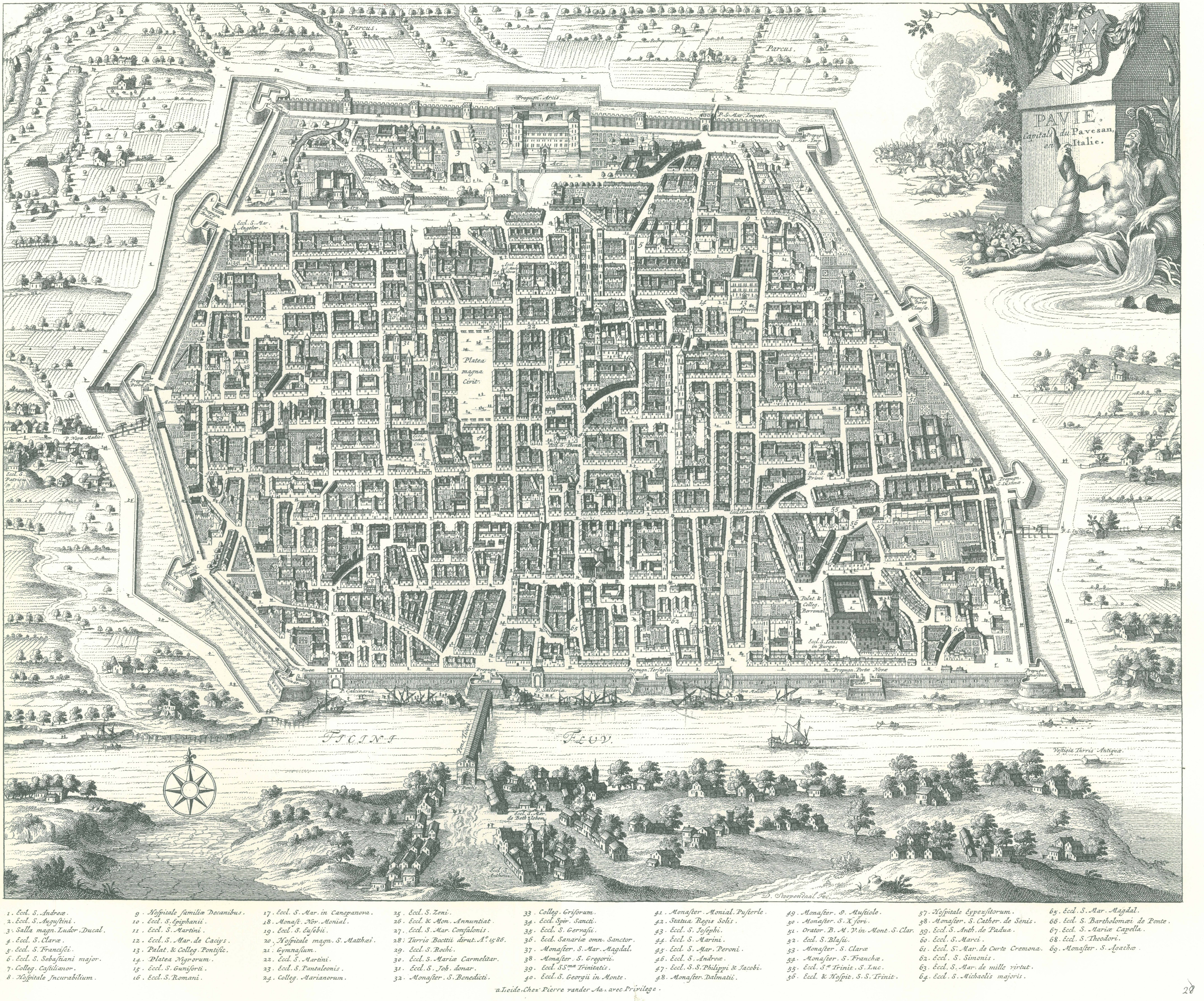 Historical map of Pavia; Pieter van der Aa, probably from La Galerie Agréable du Monde of 1728